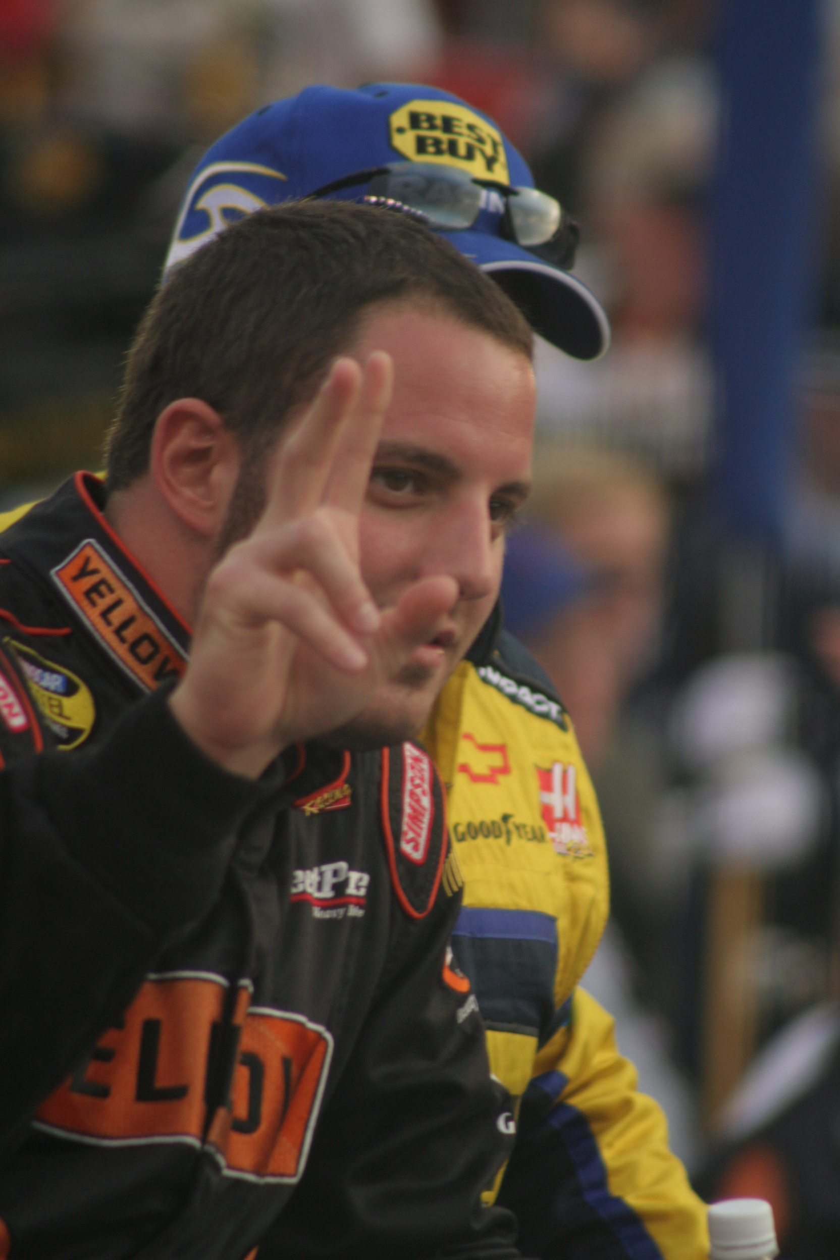 NASCAR drivers Johnny Sauter and Jeff Green (NASCAR)Johnny Sauter & Jeff Green